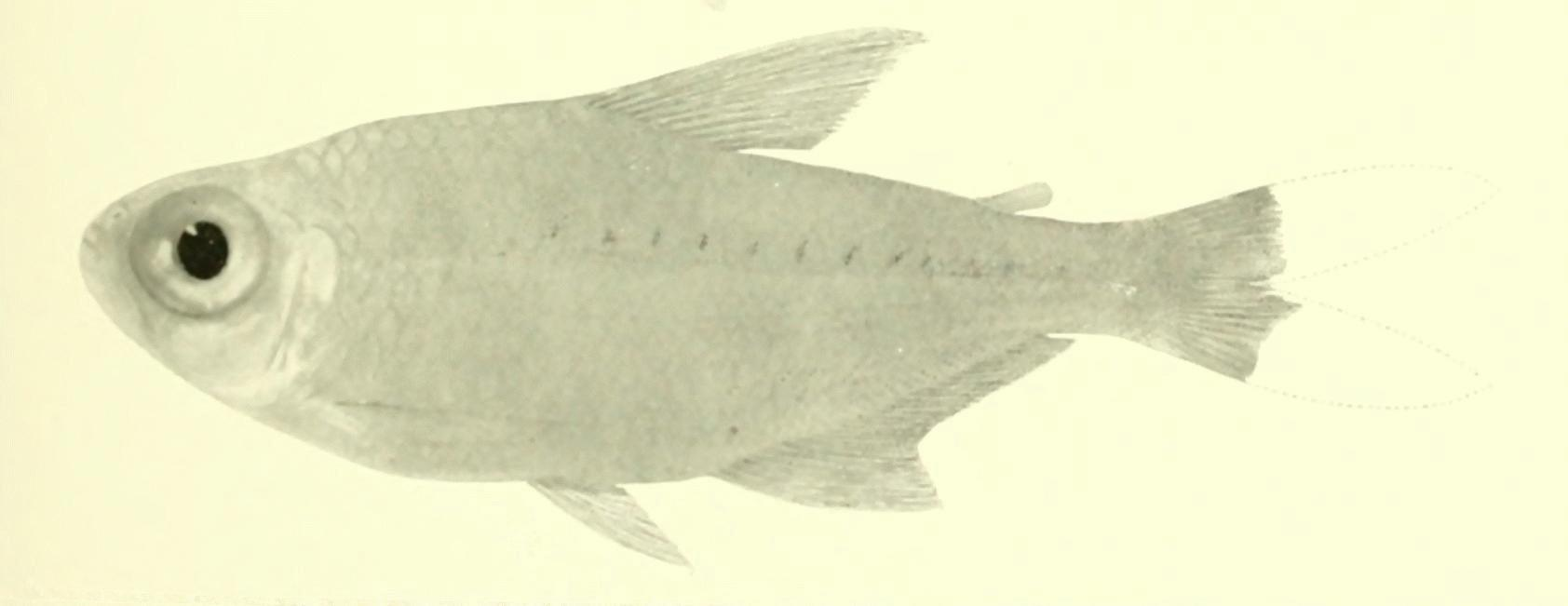 Annals of the Carnegie Museum - Astyanax guaporensis Cut-out from original (Annals of the Carnegie Museum (1911-1913) (18386689086).jpg) shown below